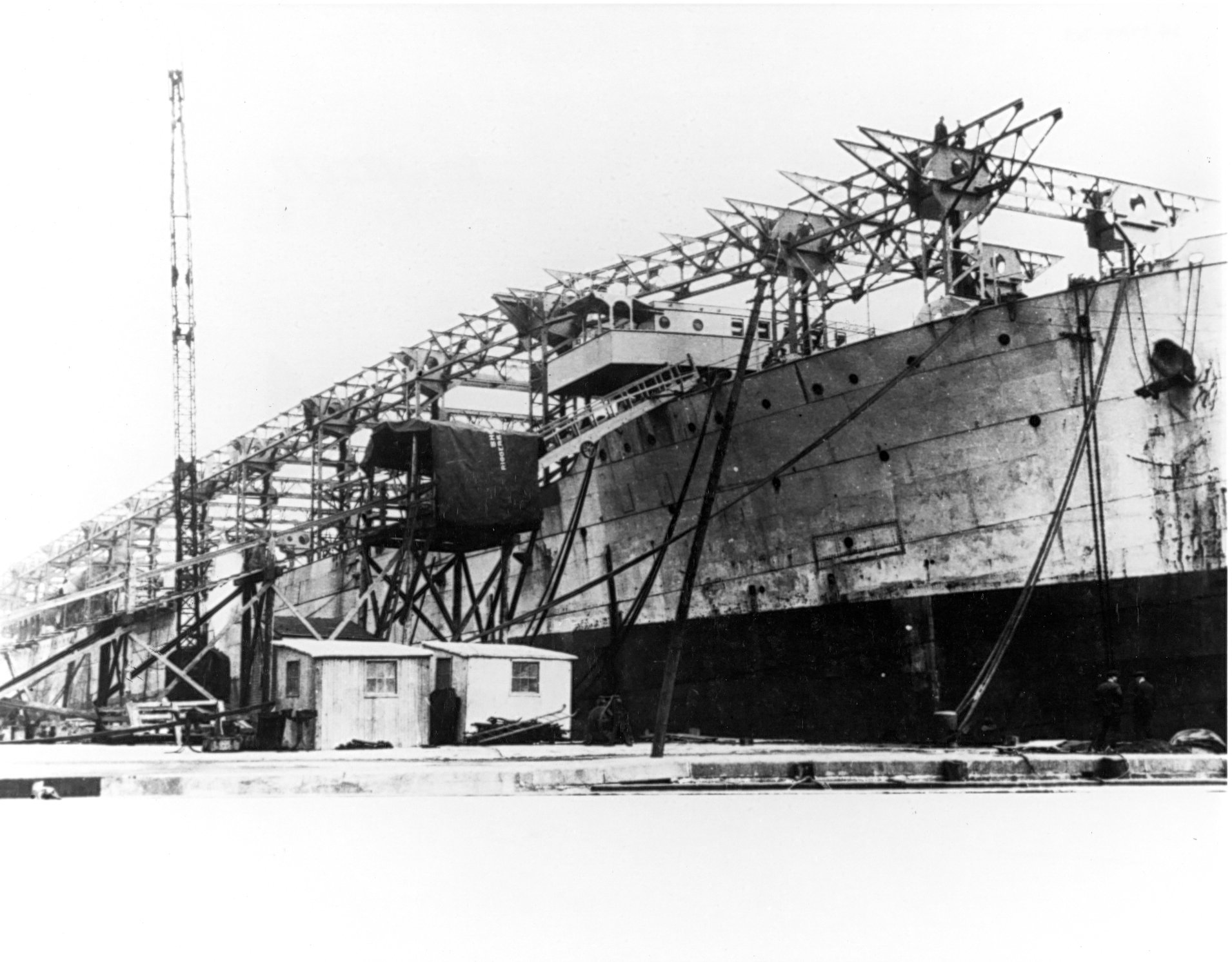 The U.S. Navy aircraft carrier USS Langley (CV-1) under conversion from a collier to an aircraft carrier at Norfolk Naval Shipyard, Virginia (USA), on 14 May 1921. USS Langley (AC-3) was decommissioned as a collier on 20 March 1920. Recommissioned as CV-1 on 20 March 1922, she served as an aircraft carrier until 26 February 1937. After a second conversion, the Langley became a seaplane tender (AV-3) on 21 April 1937.